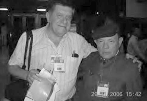 Argentine journalist Coco López (1942-) with Nicaraguan statesman, writer, and politician Tomás Borge (1930-2012). 2006 photograph.